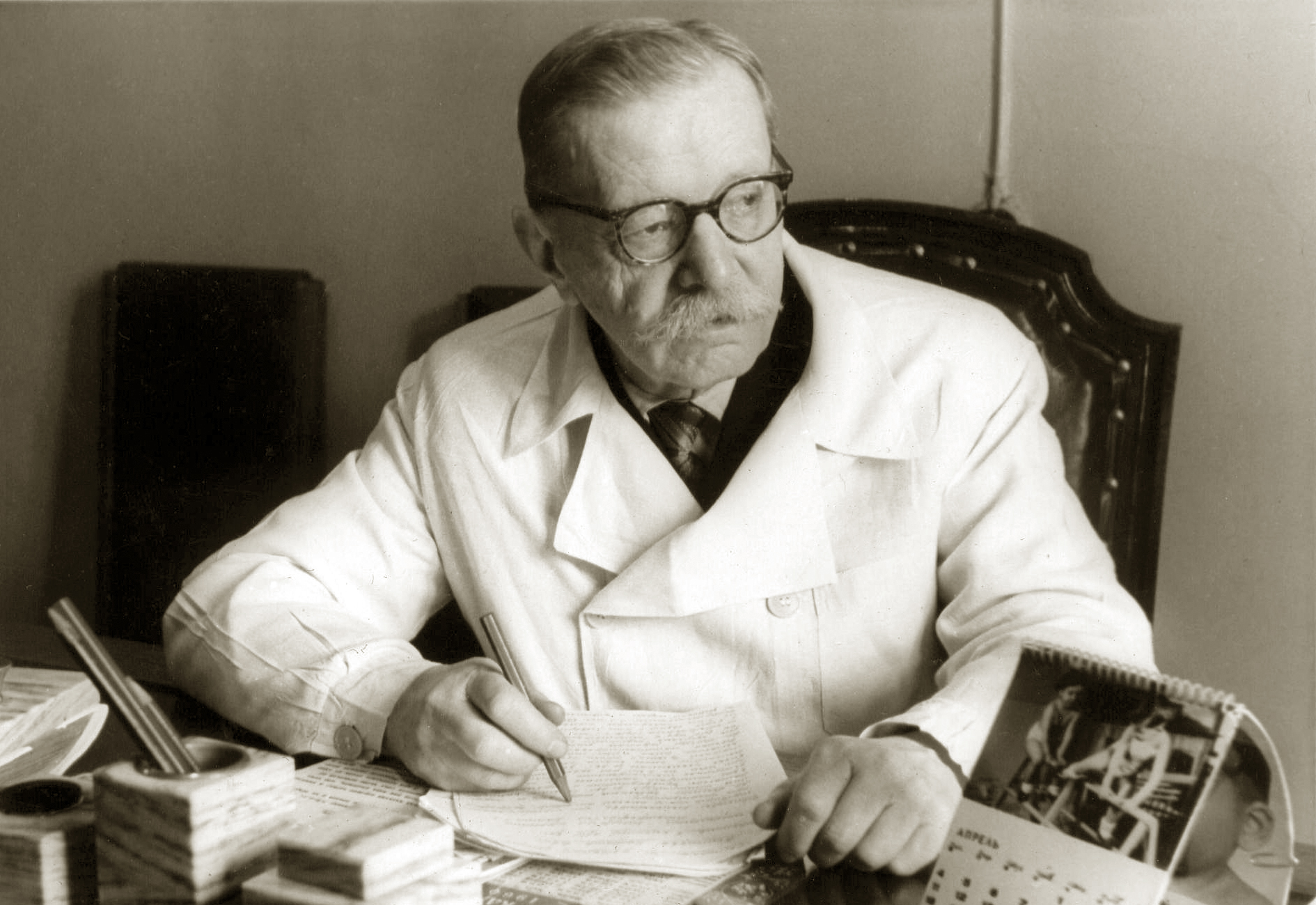 Maslov Mihail Stepanovich. Рrofessor of Pediatrics